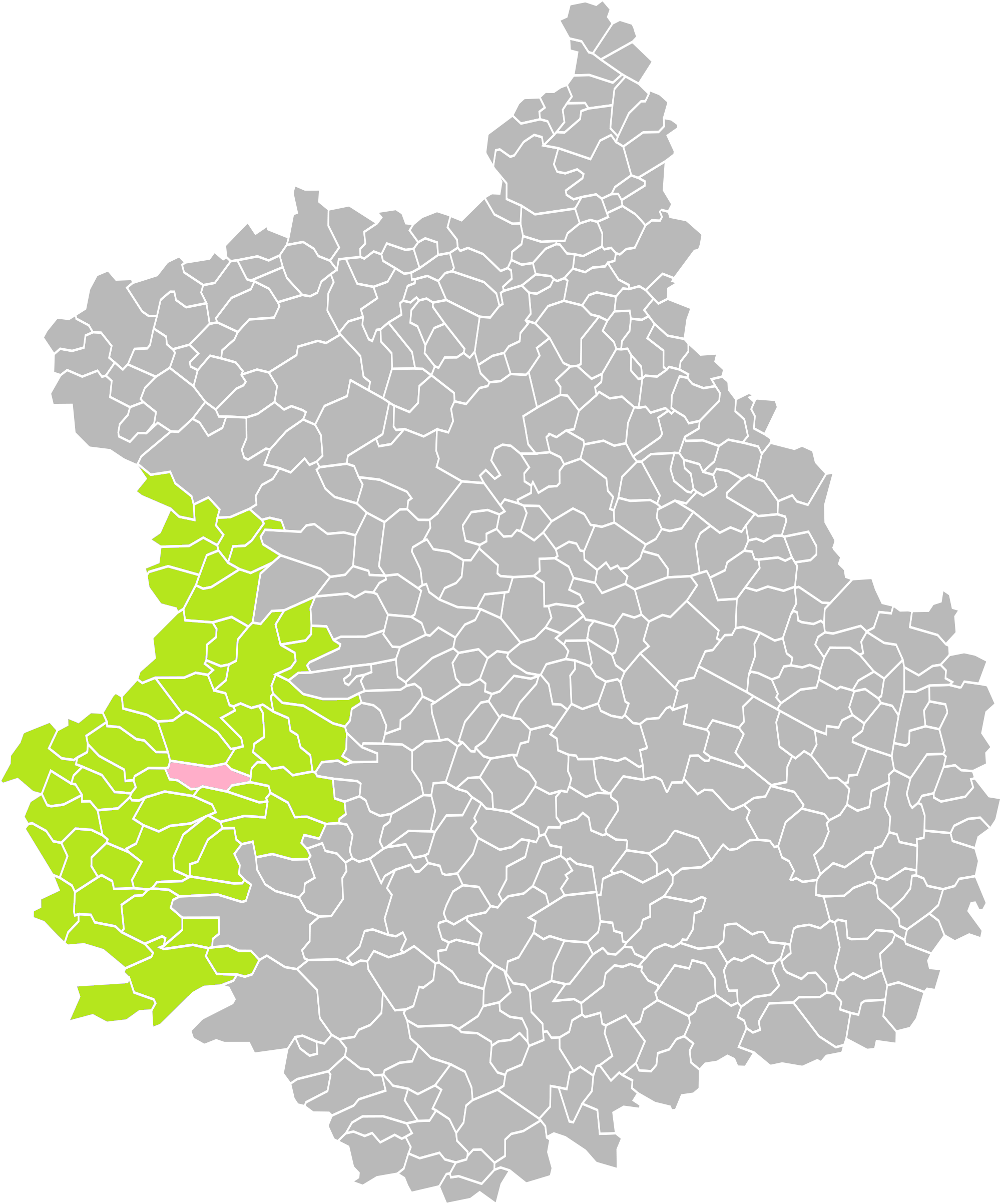 Location of the commune of Thiron-Gardais in the arrondissement of Nogent-le-Rotrou (Eure-et-Loir)